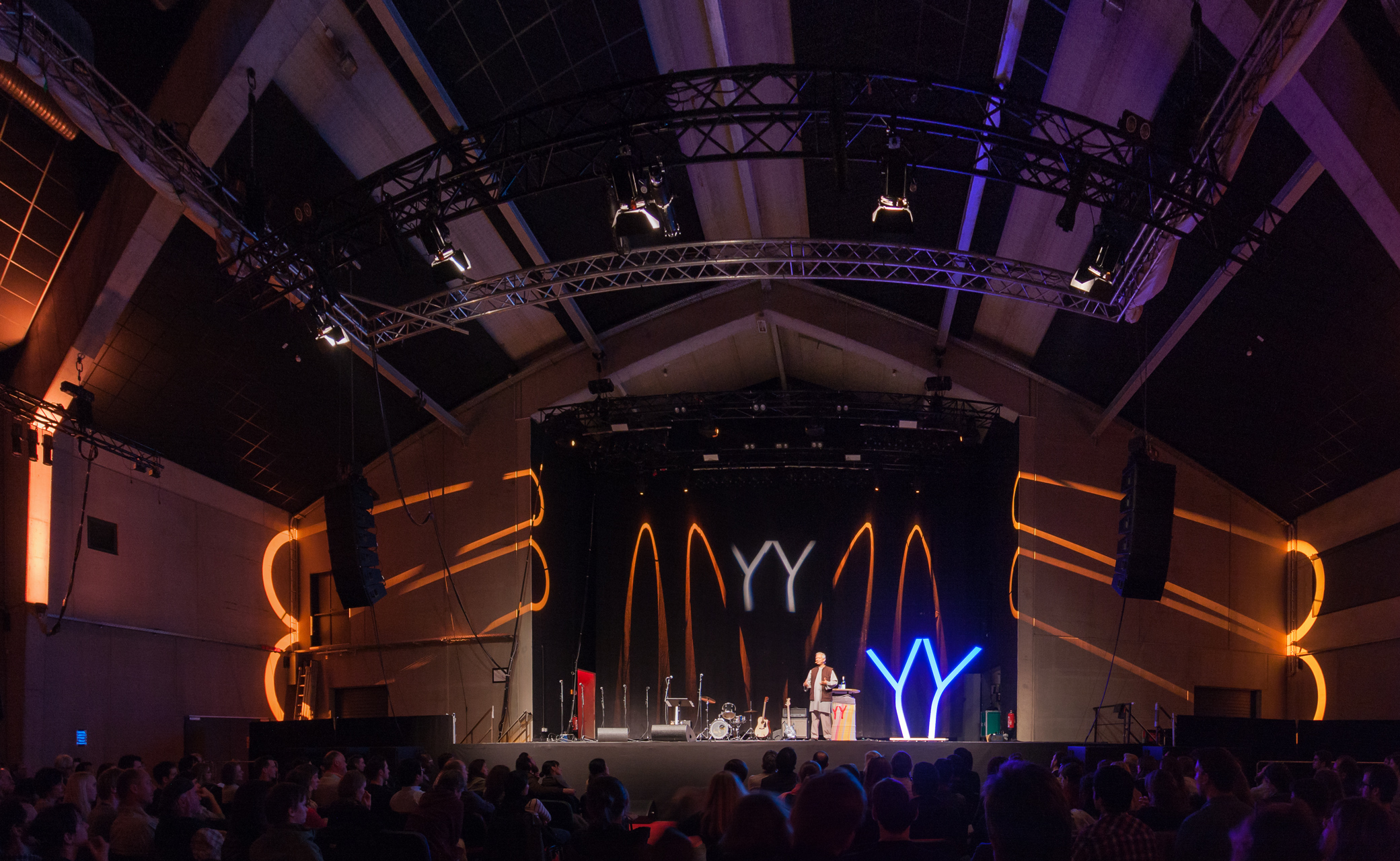 Nobel Peace Prize recipient Prof. Muhammad Yunus speaking to the audience of an YY Foundation event in the cultural centre "Schlachthof" in Wiesbaden, Germany